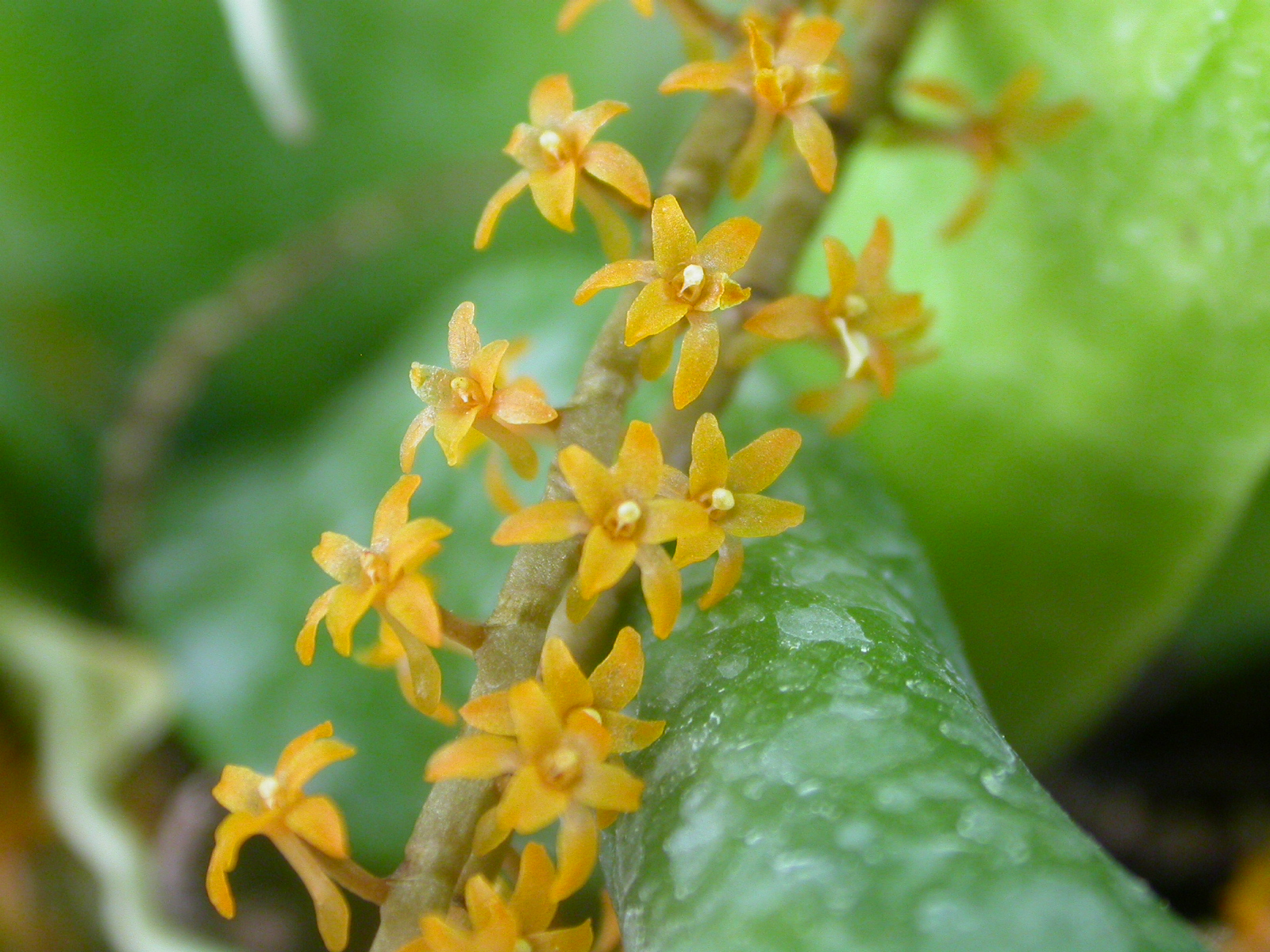 Microterangis hildebrandtii